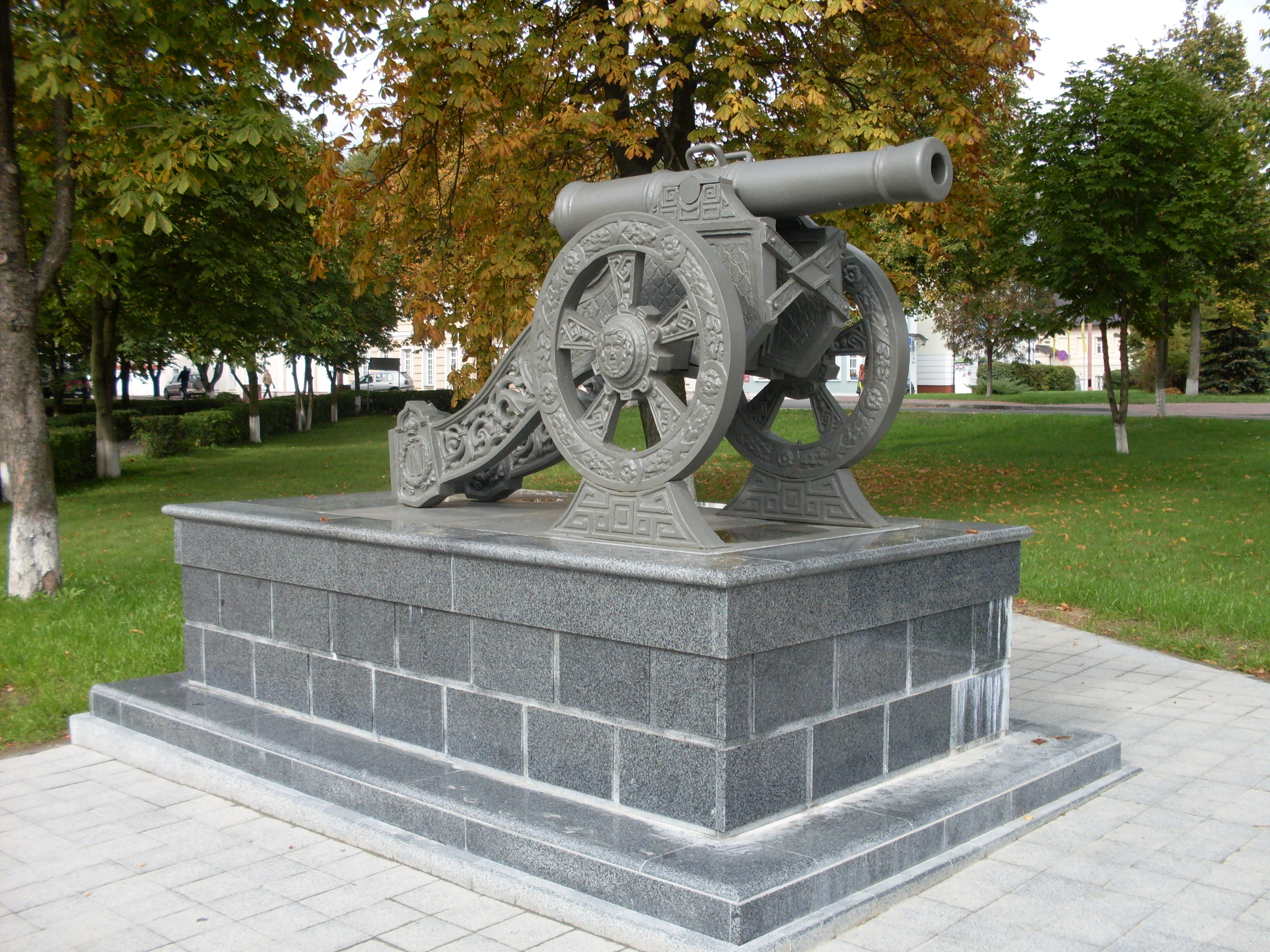 Gun at the Monument-chapel of Heroes War of 1812 in Polotsk